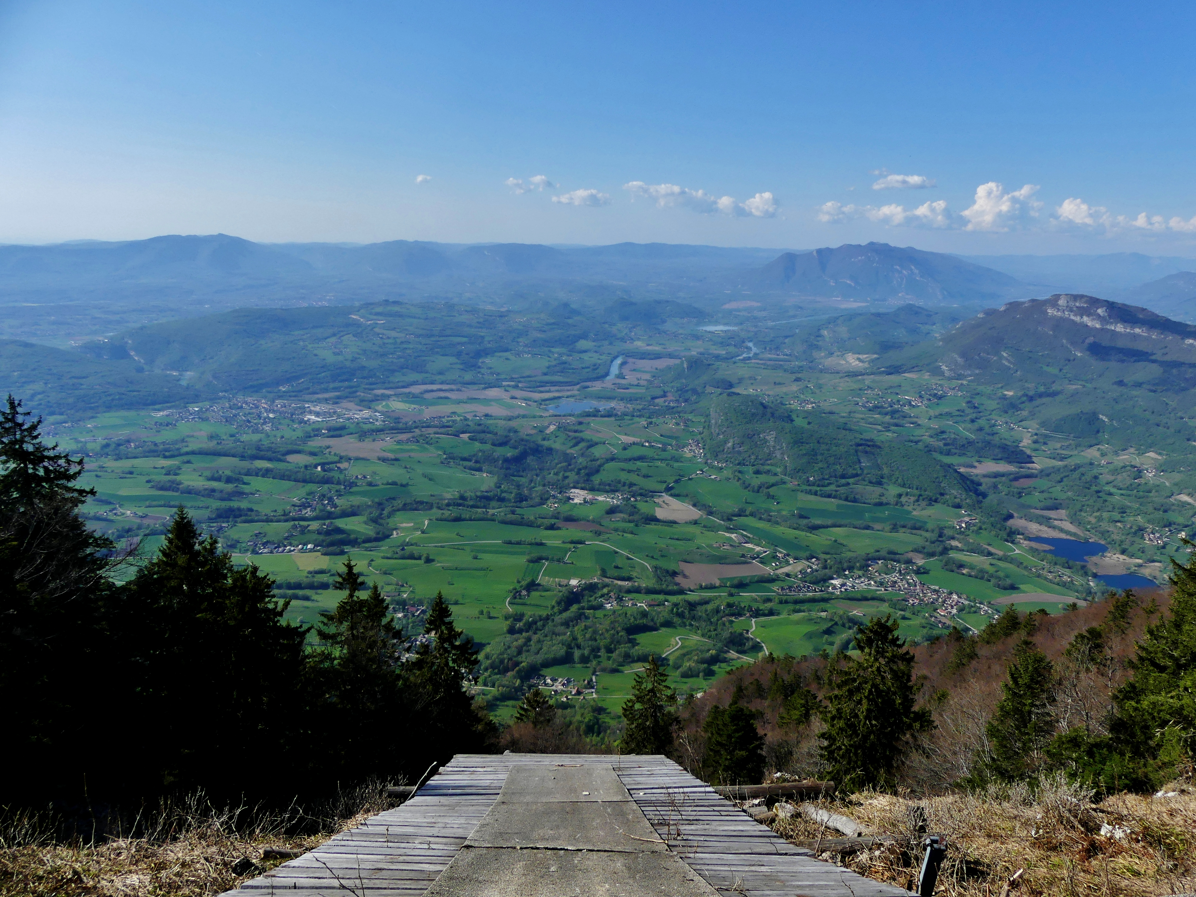 Sight, from the paragliding take-off area at the top of the Mont du Chat mountain (1,500 meters high), of the Avant-Pays savoyard historical region, in Western Savoie, France.